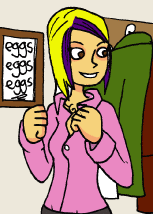 Character Amy Chilton cropped from webcomic Scary Go Round. Copyright and attribution: John Allison.